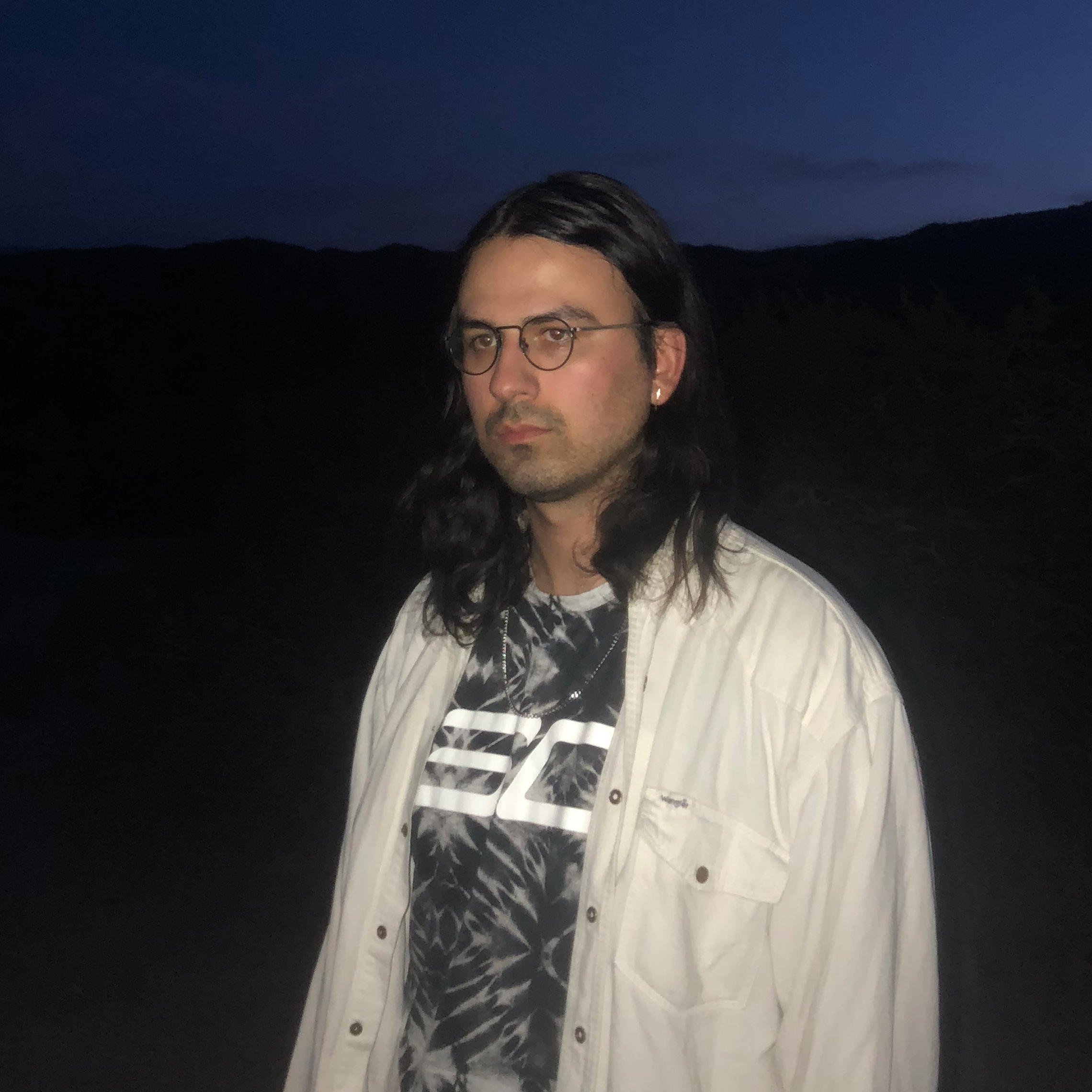 Ben Babbitt